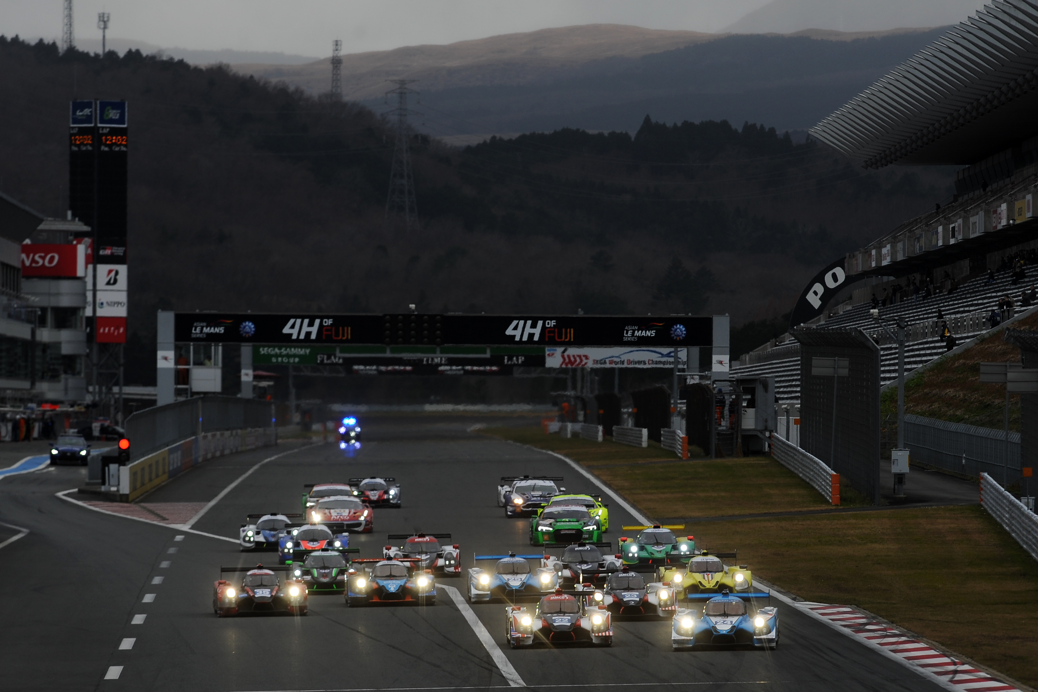 2018 4 Hours of Fuji - Start of the race